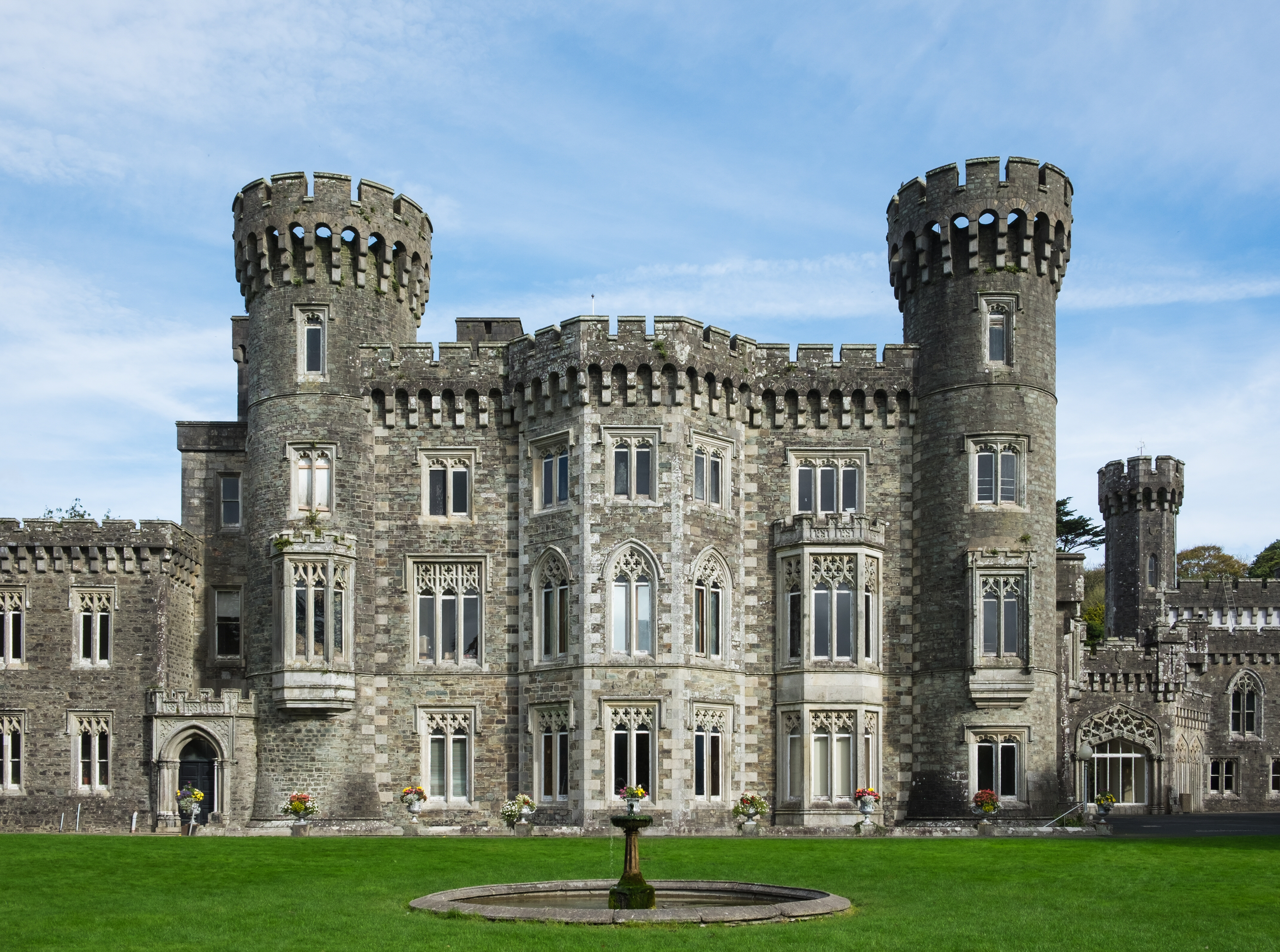 Johnstown Castle near Wexford, Ireland.